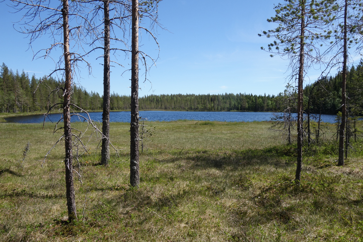 Lake Tribladtjärnen in Vindeln municipality, northern Sweden.